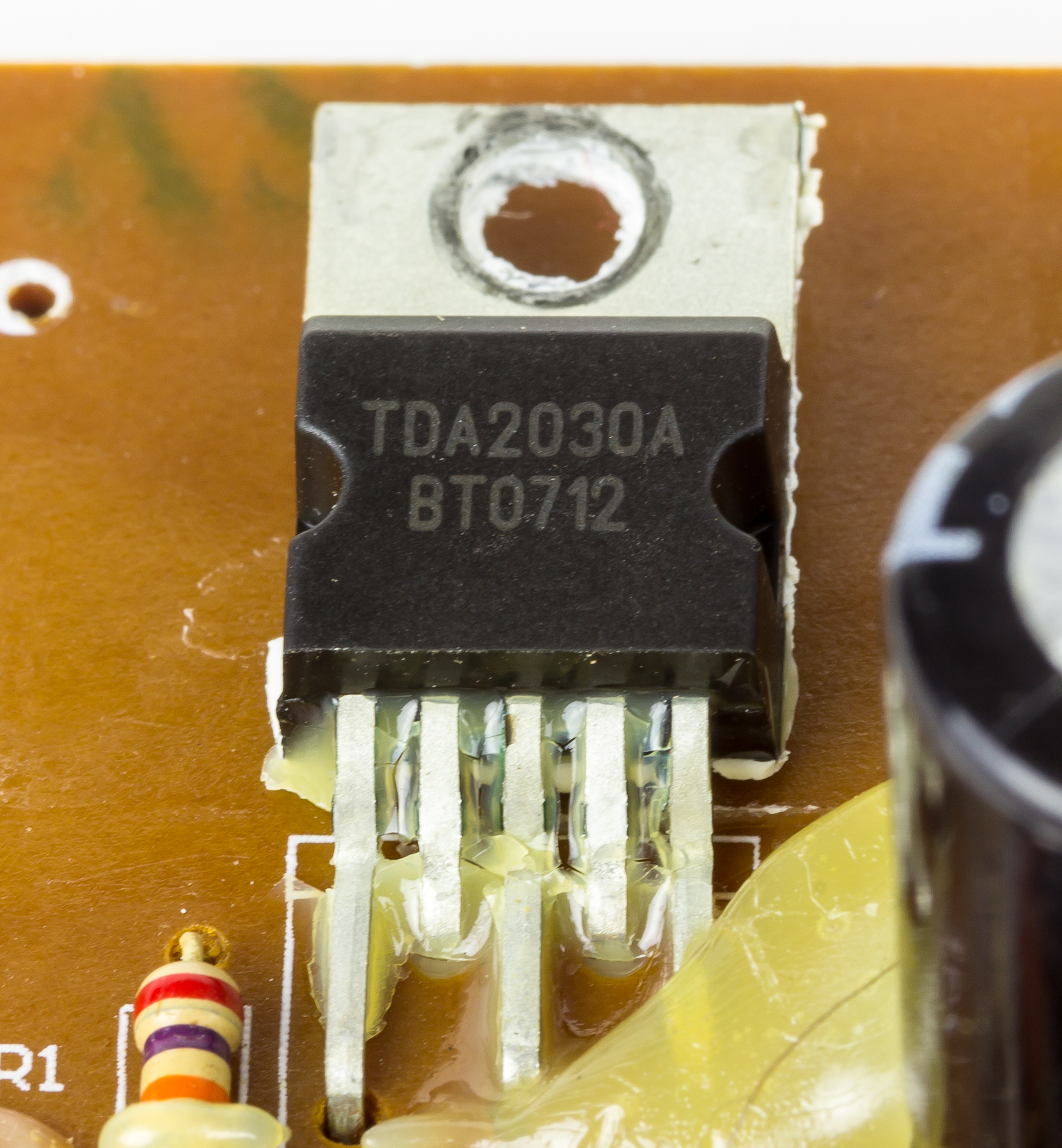 Loudspeaker Next, Model CD-380 by Shenzhen Yes-Hope - amplifier TDA2030A (18 W hi-fi amplifier and 35 W driver)